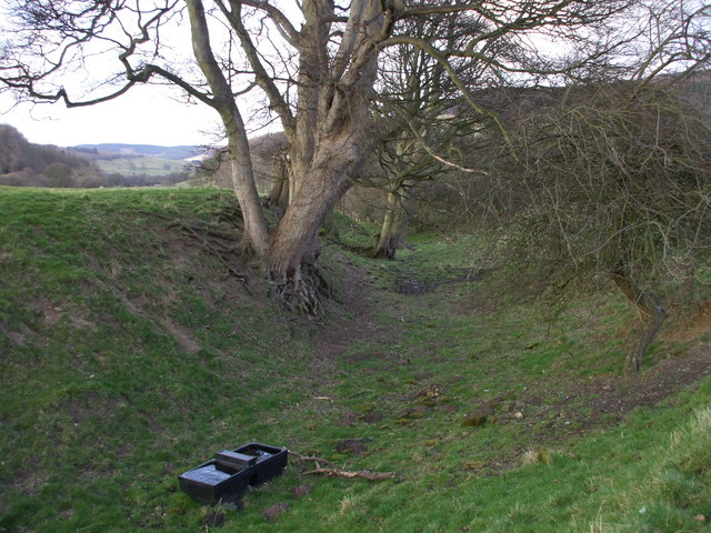 Remnant of the mediaeval moat of the fortified manor house or castle of Ravensthorpe in the parish of Boltby, North Yorkshire. Situated about one mile south of the village of Boltby and to the immediate north-west of Tang Hall Farm (otherwise known as Ravensthorpe Mill). A sycamore has anchored itself to the earthworks of Ravensthorp, a moated manorhouse & associated medieval hamlet. It was owned by Lady Eva de Boltby in 1274-1316, as her main residence. It is unknown as to when it was abandoned. The moat looks as though it should have held water, due to some local streams are diverted towards it, and at the SW end a sandstone culvert emerges with trickling water that then runs into a small mill pond. Boltby Forest an just be made out to the left of the sycamore tree.